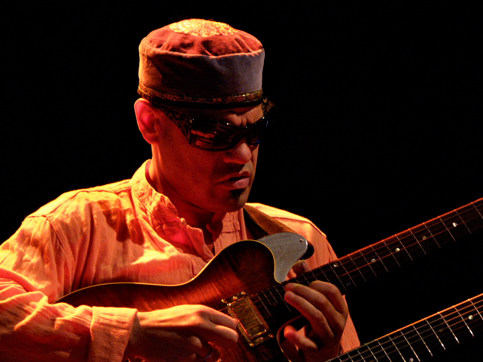 David Fiuczynski at moers festival 2007 self made/own work, may 28, 2007 photo: nomo/michael hoefner